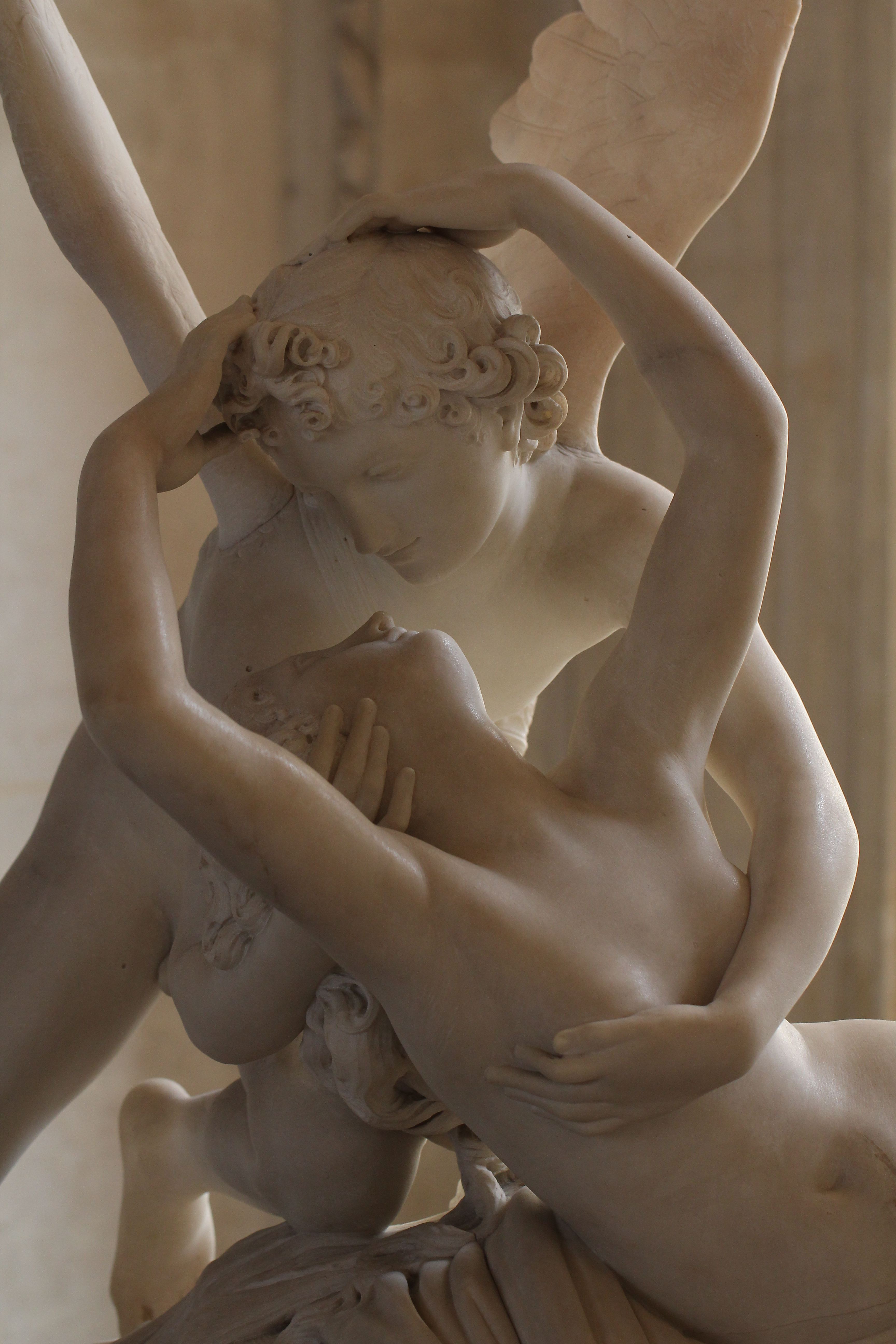 Amor (Cupid) kisses Psyche by Antonio Canova, Louvre